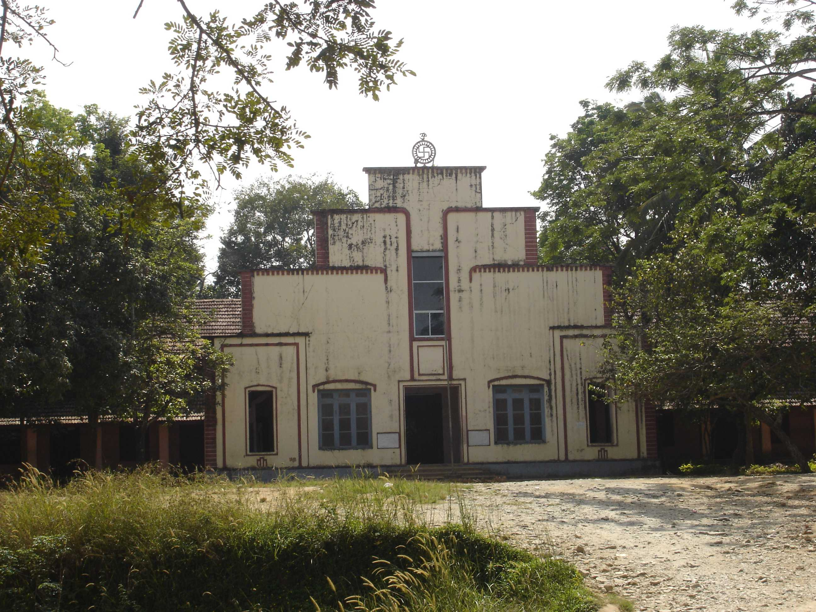 S.K.M.J. Higher Secondary School, Kalpetta, North Wayanad